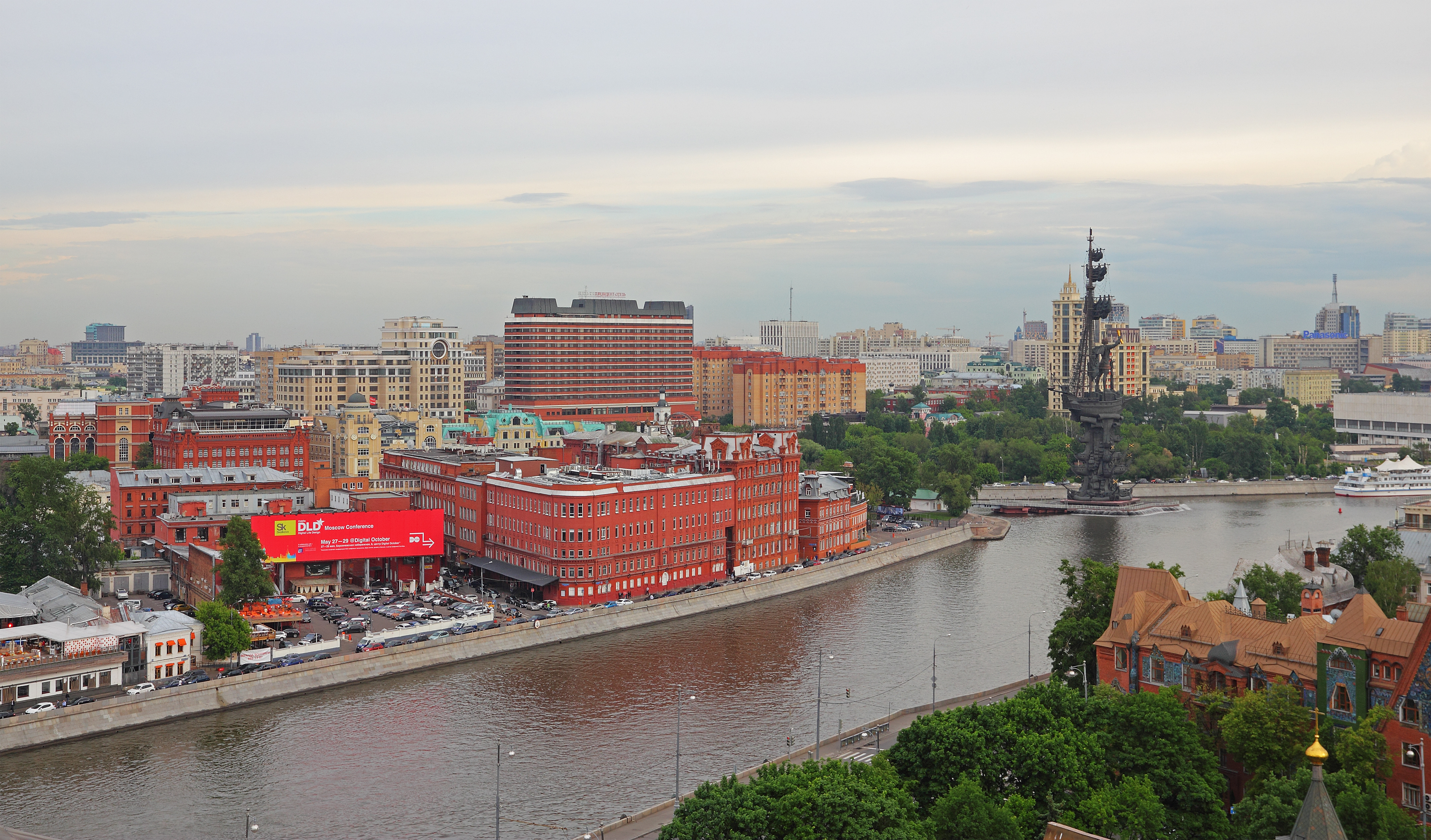 View from one of the four visitor's viewing platforms of the Cathedral of Christ the Saviour in Moscow.